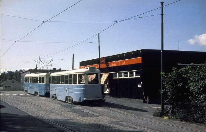 STBO 581 tram at Kjelsåsalléen on the Kjelsås Line in Oslo.